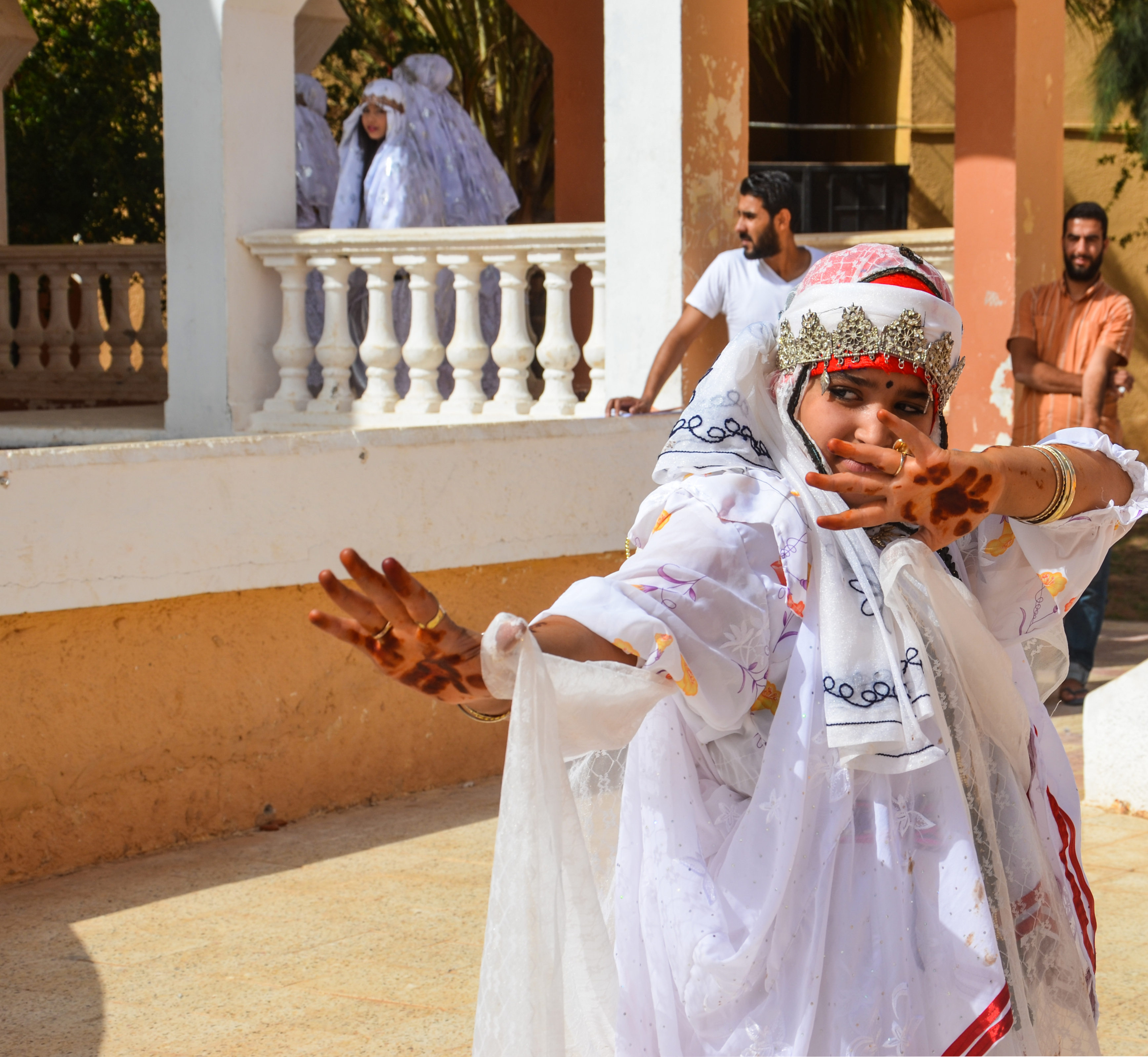 Dancer of Ouled Nail, in Algeria This is an image of music and dance from Algeria